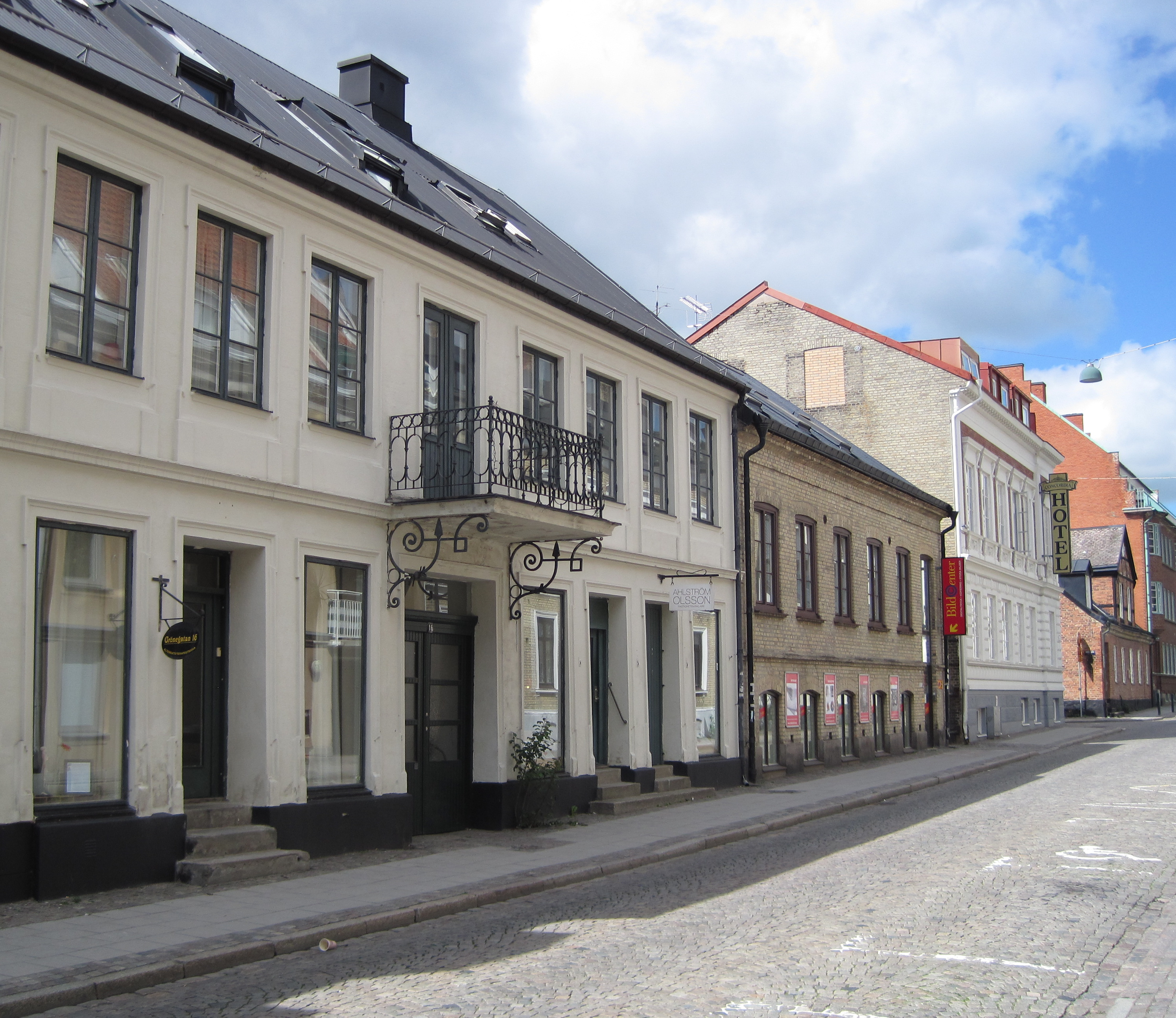 The north-eastern part of Kvarteret Billegården, a city block in central Lund, seen from Grönegatan. The hotel in the right part of the photo was earlier a student dwelling for christian students known as "Micklagård".